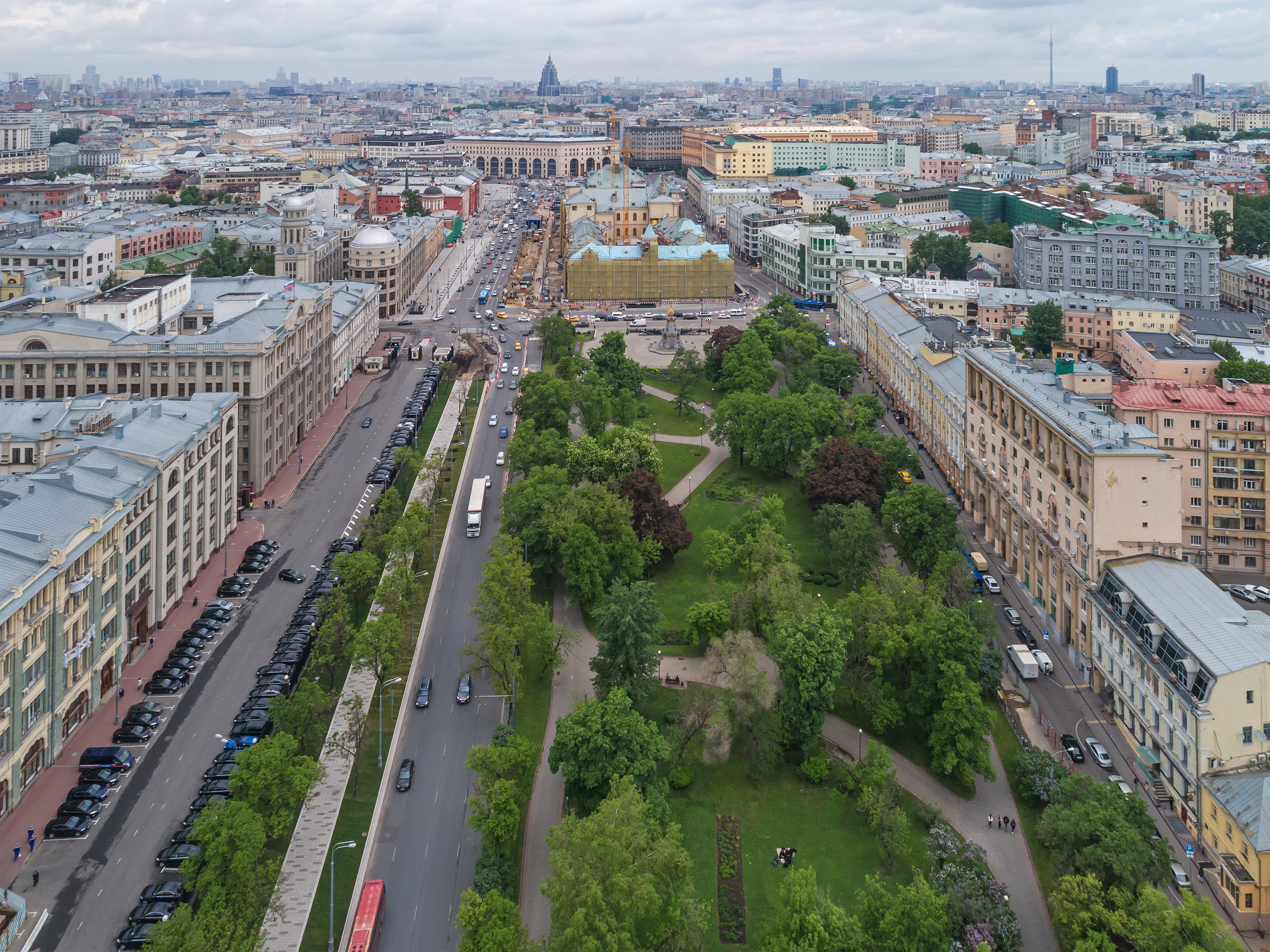 Aerial photo at Kitay-Gorod metro station in Moscow (Russia).